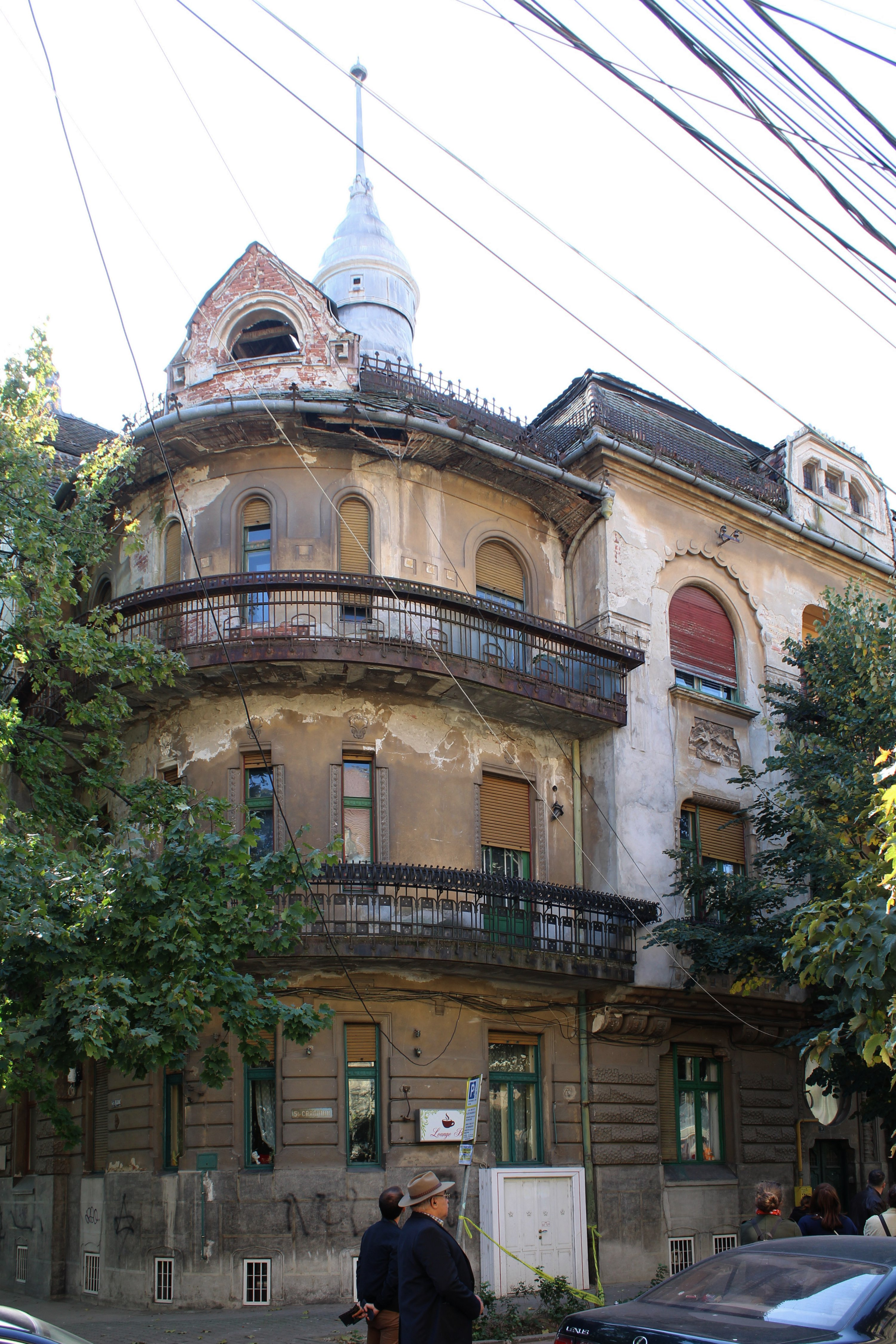 Jakob Klein Palace, Timișoara, Romania, built 1910